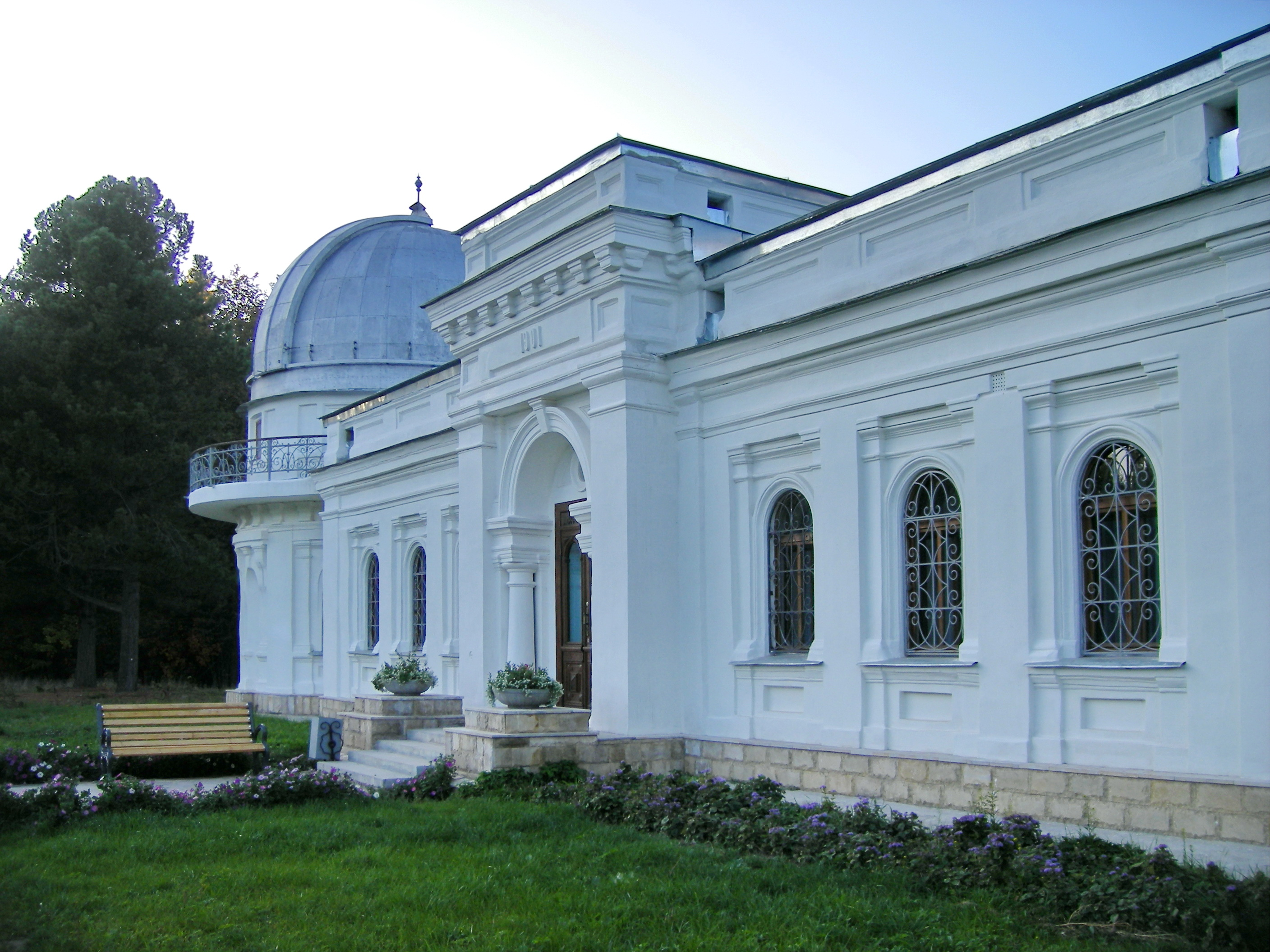 One of EAO building